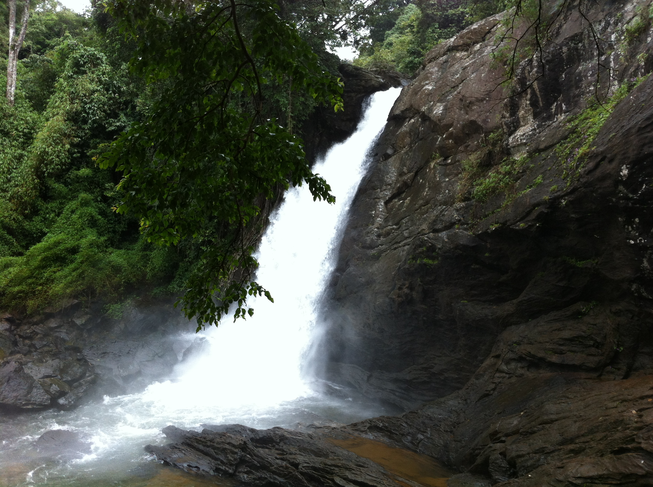 Soochipara Falls, Wayanad Kerala